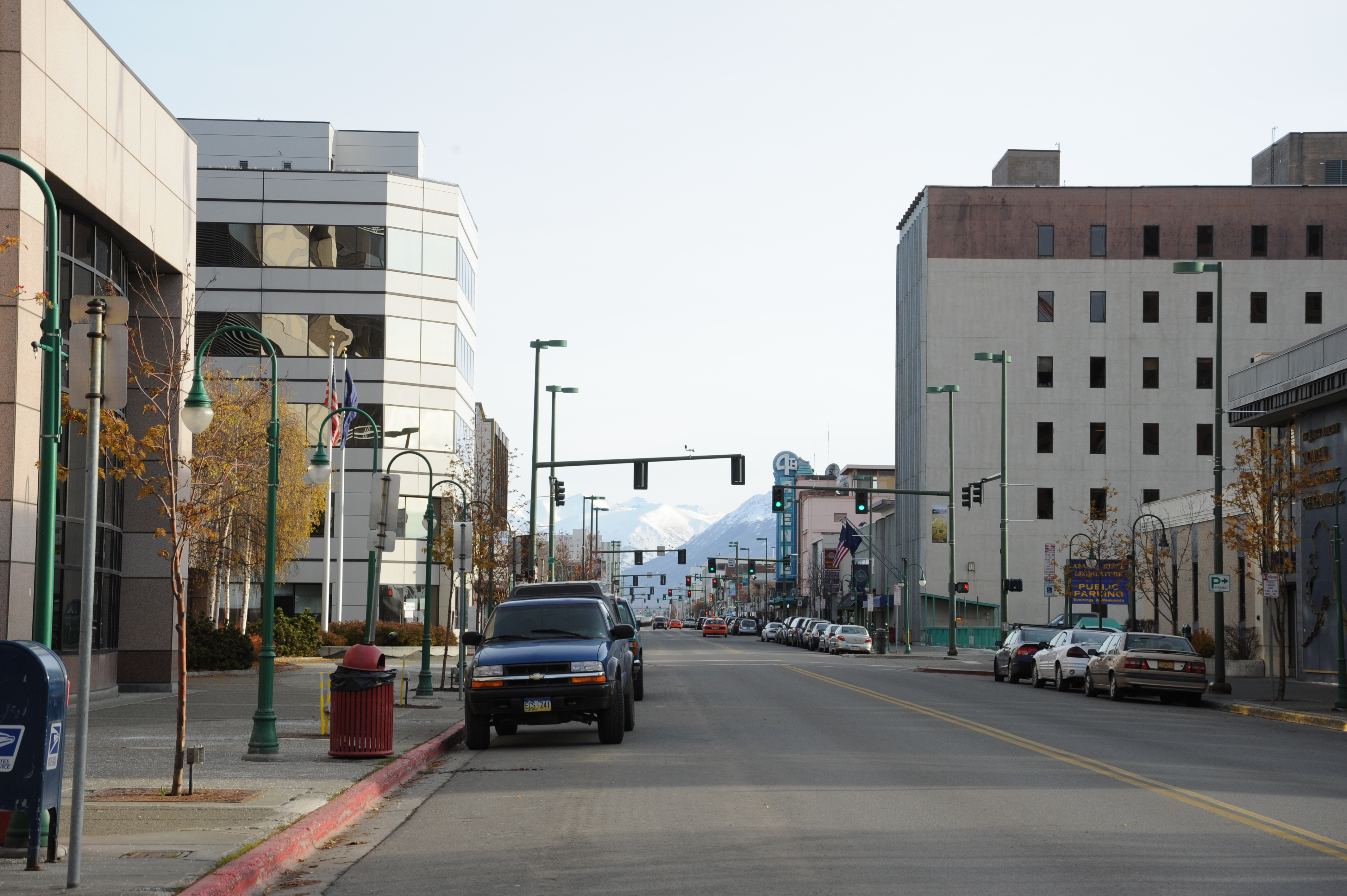 Street-level view of Fourth Avenue in downtown Anchorage, Alaska, looking east from I Street.